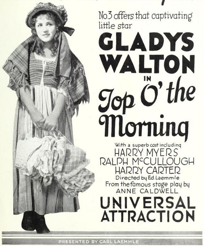 Ad for the American film Top o' the Morning (1922) with Gladys Walton, page 40 of the August 19, 1922 Universal Weekly.